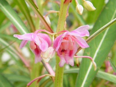 Family: Balsaminaceae Distribution: An aquatic succulent herb found in Peninsular India, U.P, W.Bengal, Sri Lanka, Burma and Java. Photographed at a pond in Sri Harikota of Nellore district. 30-90cm tall, stem fistular, rooting at basal nodes. Leaves linear oblong, 3-15x0.5-3cm, glandular, serrate, acute, petiole with 2 sessile glands. Flowers pale pink, 2-3cm across, zygomorphic, binate , axillary, Capsule globose, 5 celled, red in color. Referrence: Flora of Nellore district by B.Suryanarayana and A.S.Rao.